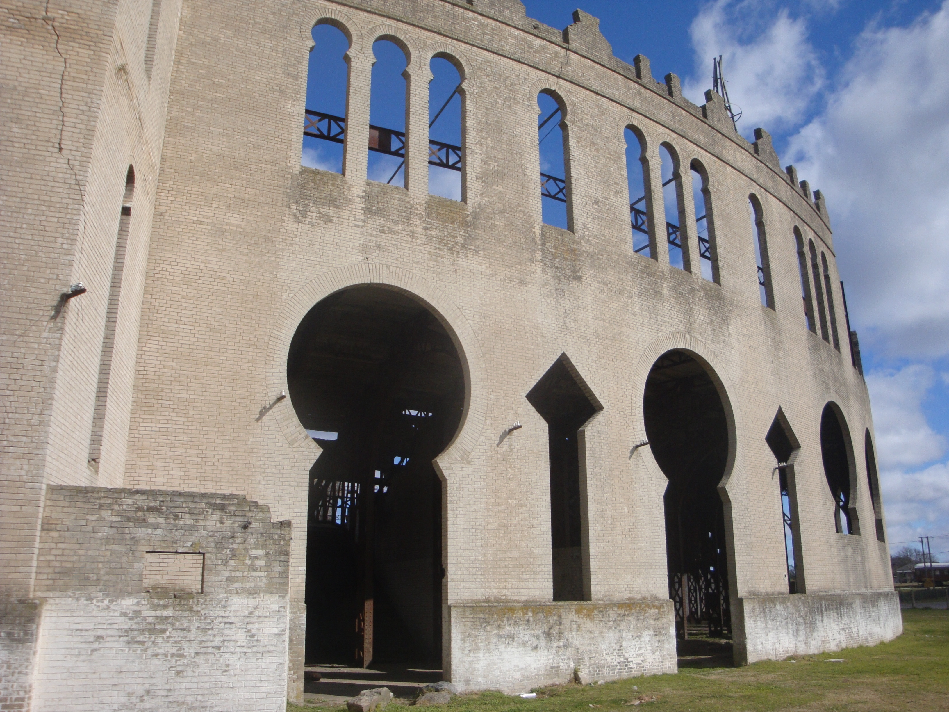 Bullring "Real de San Carlos", Colonia del Sacramento, Uruguay